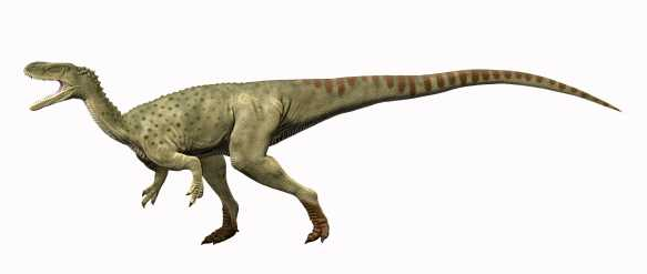 Restoration of Spinostropheus gautieri